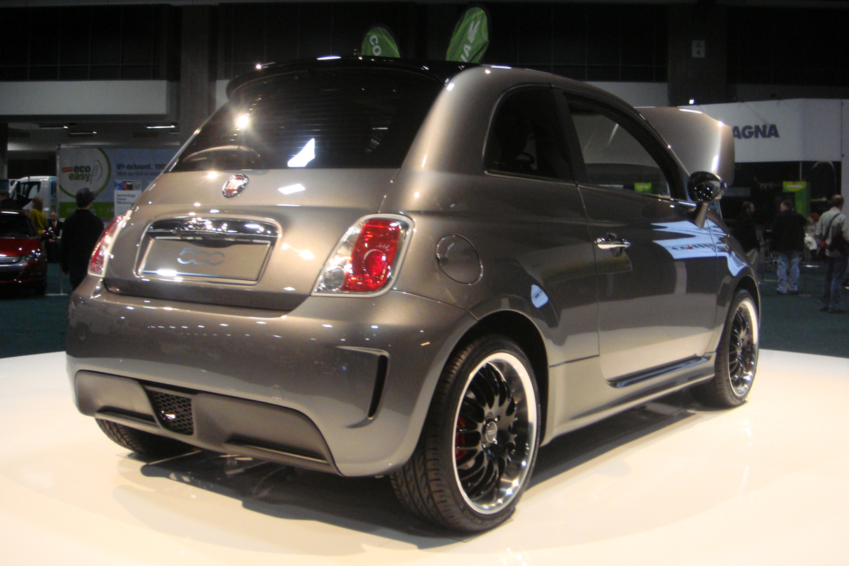 Fiat 500 Elettra BEV (Battery Electric Vehicle) at the 2010 Washington Auto Show